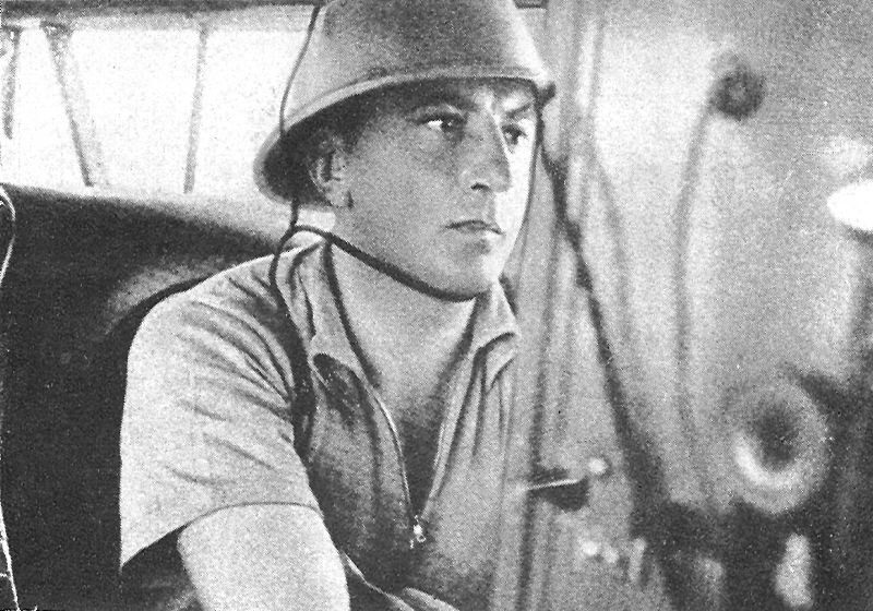 The mechanic and radio operator Agnus Louis on board of Potez 56, which, along with George-Valentin Bibescu and Gheorghe Bănciulescu conducted in 1935 an aviatic raid in Africa.